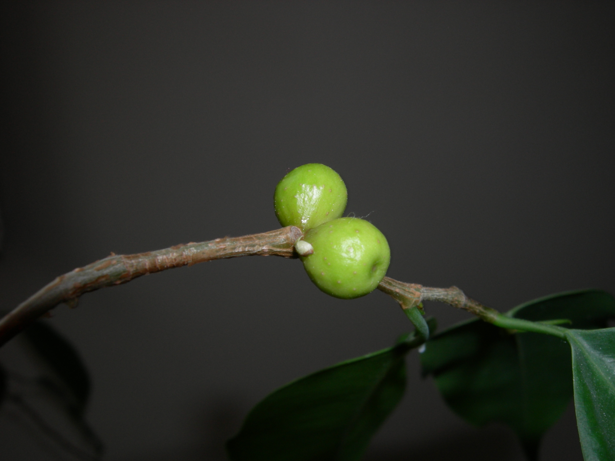 Fruit of the ficus benjamina.